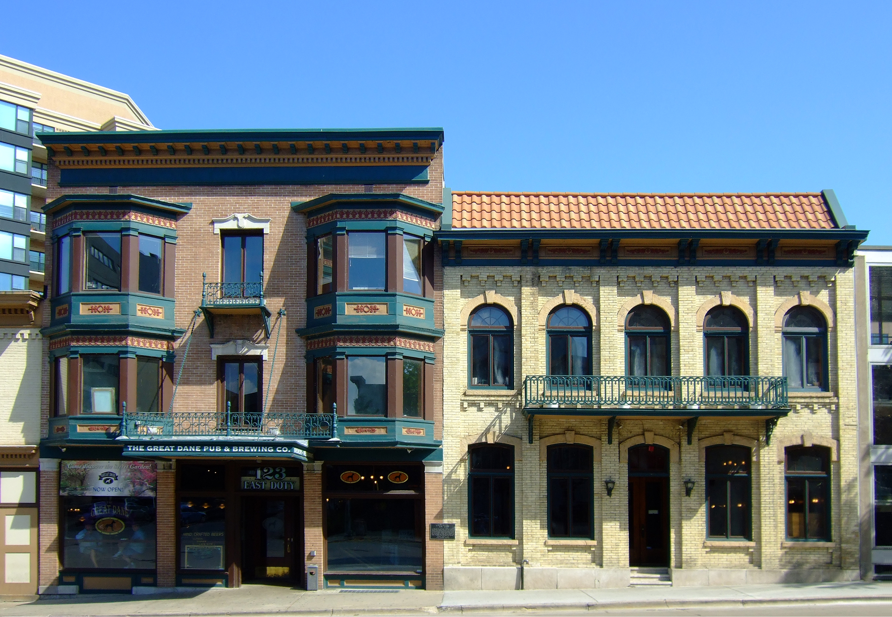 Fess Hotel (1858, 1901) at 123 E. Doty Street in Madison, Wisconsin, is a reminder of the commercial character of the King Street and Doty Street area. George Fess, the original proprietor, catered to travelers on the nearby railroad lines and to weekly boarders, and the hotel was patronized by the common man throughout its history. After a remodeling in 1901 by architects J. O. Gordon and F. W. Paunack, the lodging was known for a decade as the Central Hotel though it remained in the Fess family until recently. It is now occupied by the Great Dane Brew Pub. It was added to the National Register of Historic Places in 1978.